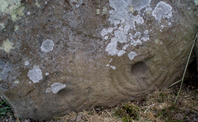 Cup and Ring marked stone at Ardestie Earth House